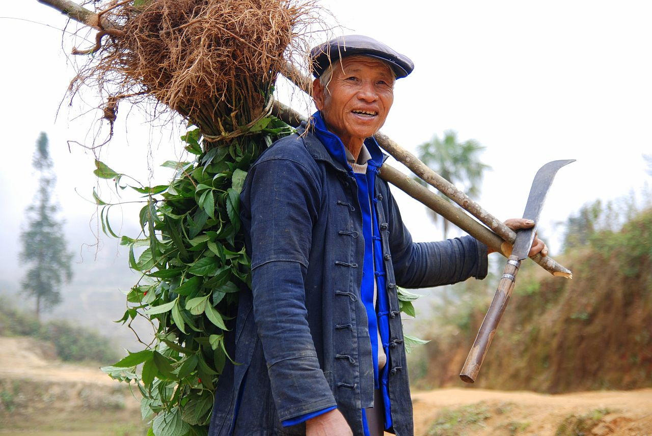 A farmer of the Hani minority near his village of Puduo, Yuanyang county, Yunnan, China